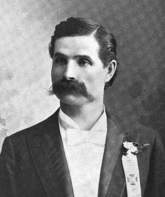 James S. Wall, mining captain from Iron River